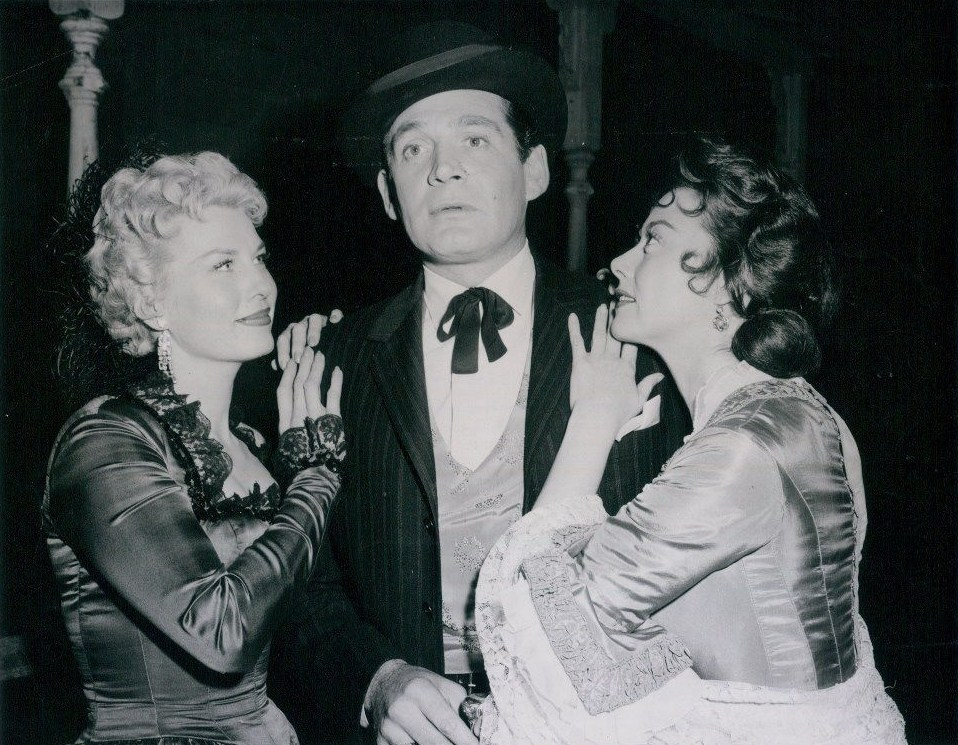 Jean Willes, Gene Barry & Adele Mara in the TV series Bat Masterson, episode Double Showdown (1958) - publicity still (cropped)